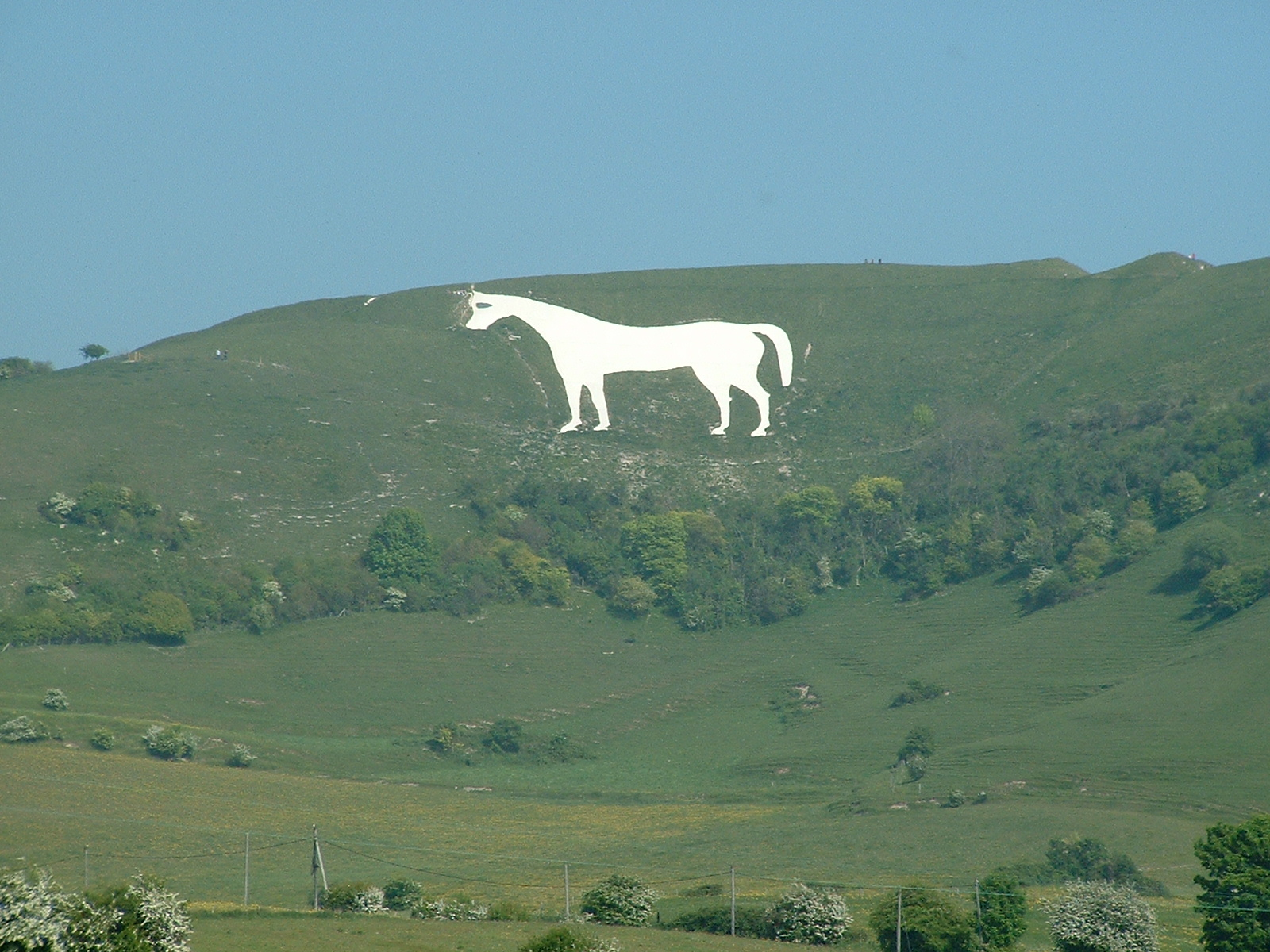 Taken from a nearby road after the repainting of the White Horse